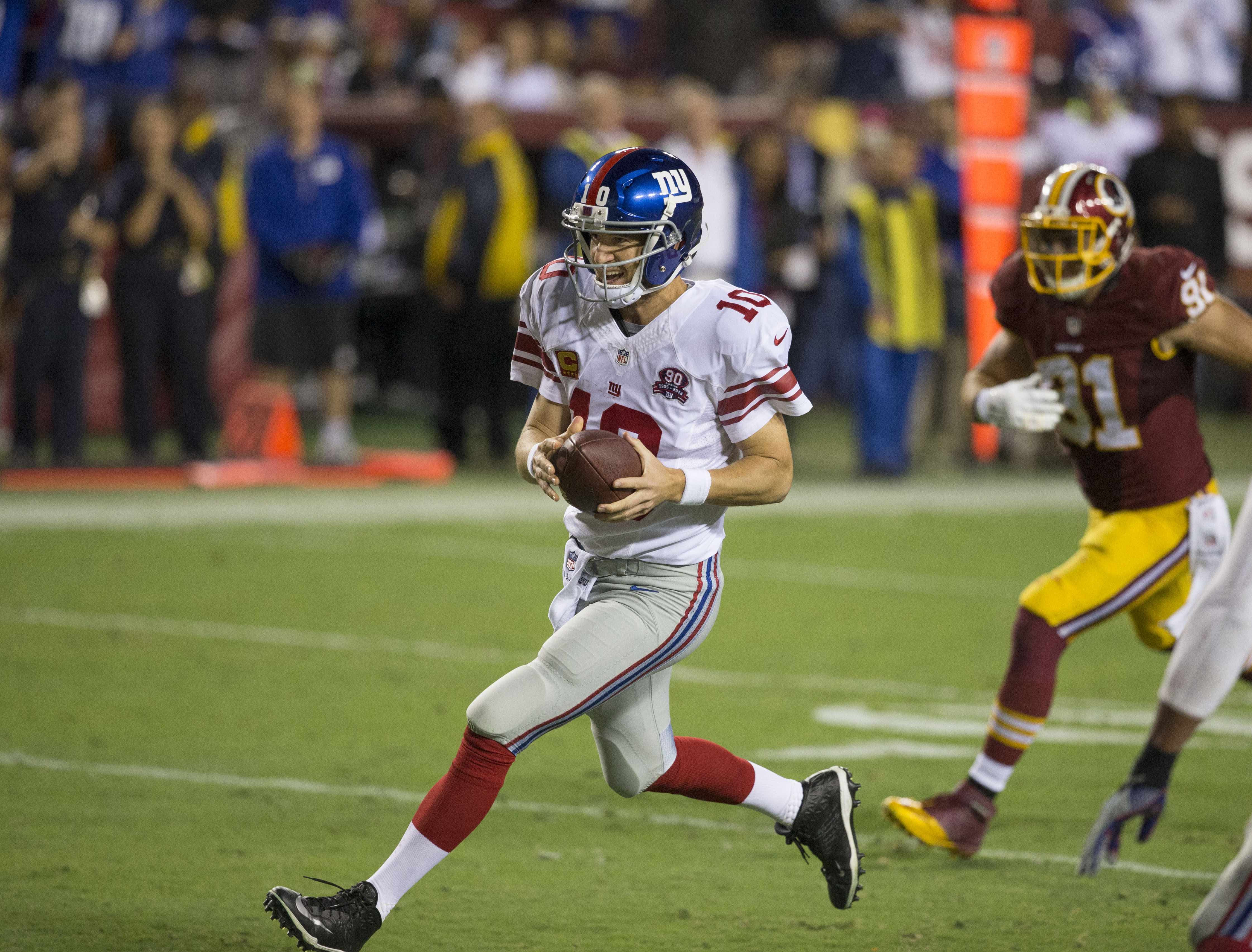 Giants at Redskins 9/25/14